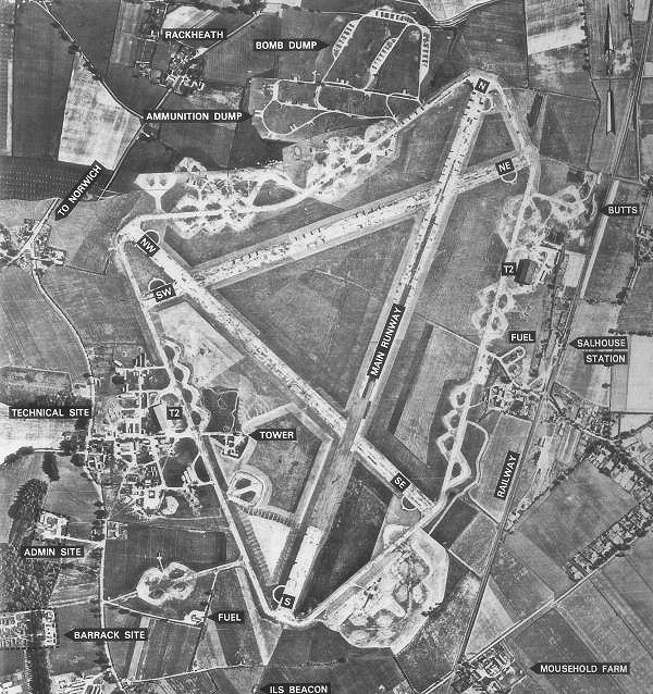 Aerial photograph of Rackheath Airfield, England.